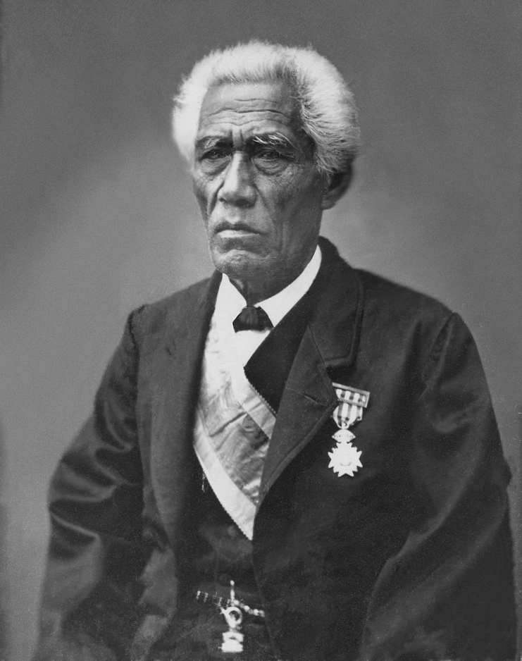 Charles Kanaʻina (1801–1877) was a Hawaiian noble during the Kingdom of Hawaii, and father of King William Charles Lunalilo. He served as a judge and legislator for many years